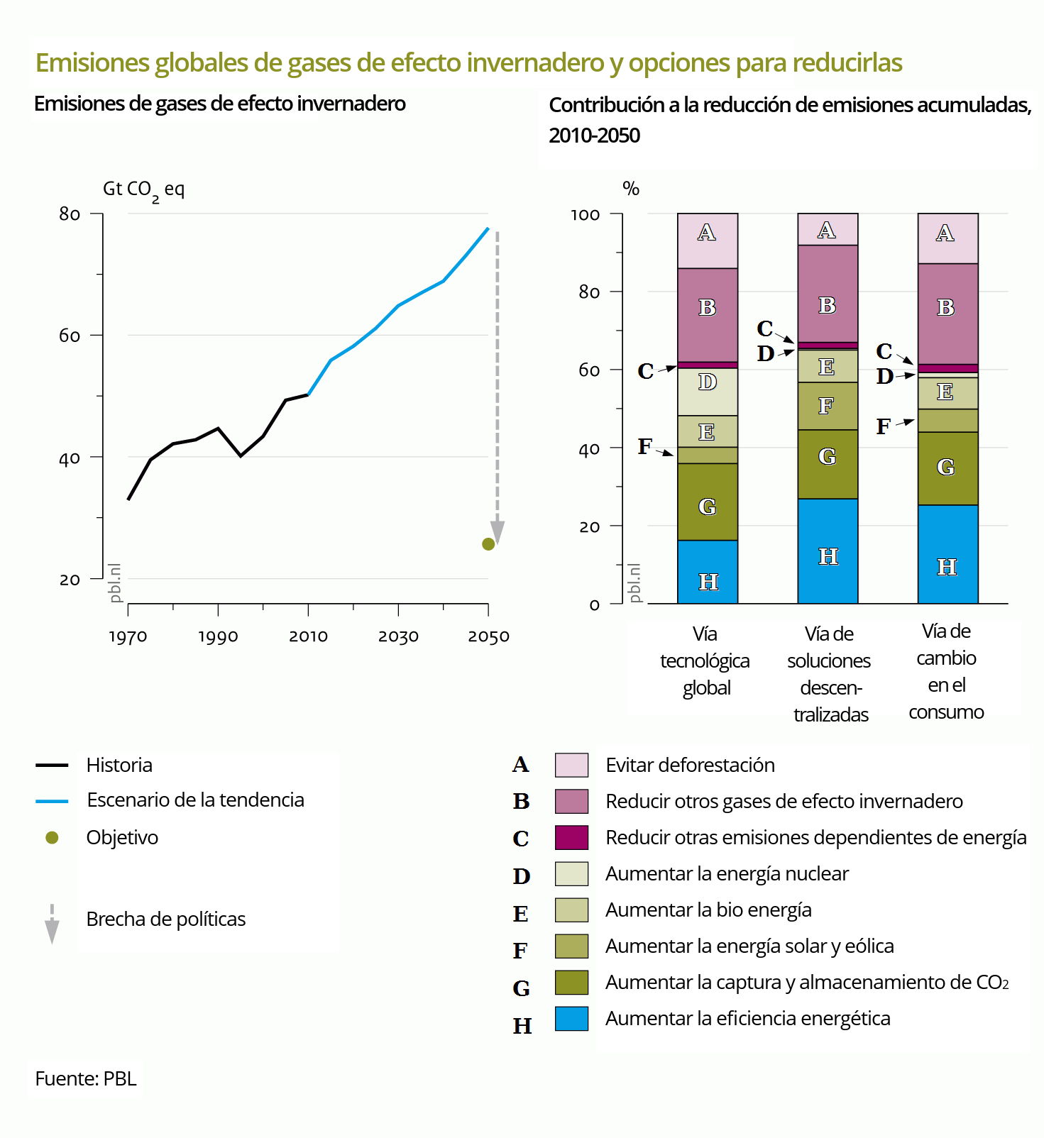 This image shows two graphs. The graphs show how global warming could be limited to below 2 °C, relative to the pre-industrial level. This is an adaptation into Spanish.Full description in the English original version.